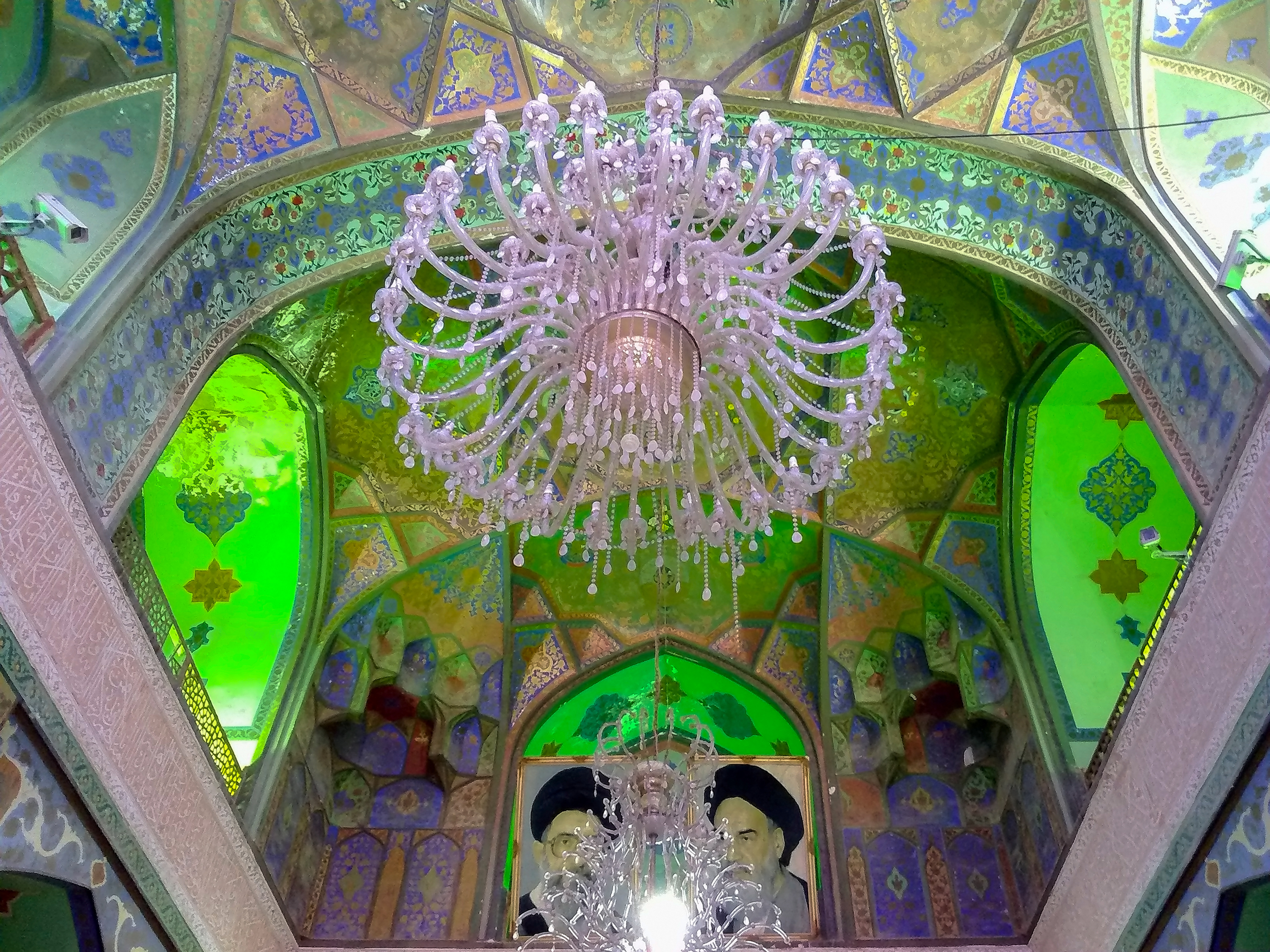 Sultan Ali ibn Muhammad al-Baqir 'Ali ibn Muhammad ibn 'Ali ibn al-Husayn was the son of the fifth imam of Twelver Shii Muslims and fourth imam of Ismaili Shii Muslims, Muhammad al-Baqir. Born in Medina, 'Ali, known in Iran as "Sultan 'Ali," was dispatched by his father to the areas of Kashan and Qom, where he served as a Friday prayer leader and teacher; his popularity and his preaching of Shii Islam proved threatening to the local representative of the Umayyad dynasty. The Umayyad representative's forces cornered and killed Sultan 'Ali and a band of his supporters, after a prolonged battle, and before a larger group of supporters could arrive, in Ardahal, a village roughly 45 kilometers east of Kashan on August 7, 734 CE (27 Jamadi II, 116 AH). He is still revered by Shii Muslims, especially in Iran, where his burial place—which has undergone repeated renovations but dates, in part, to the Saljuq period—has become a site of visitation. The shrine is known for a distinctive annual carpet-washing ritual (qālī-shūyān) that occurs on the seventeenth day of autumn to commemorate the day of Sultan 'Ali's martyrdom, a ritual that might have its origins in Sultan 'Ali's body having been wrapped in a carpet and brought to the site of his burial after his murder.